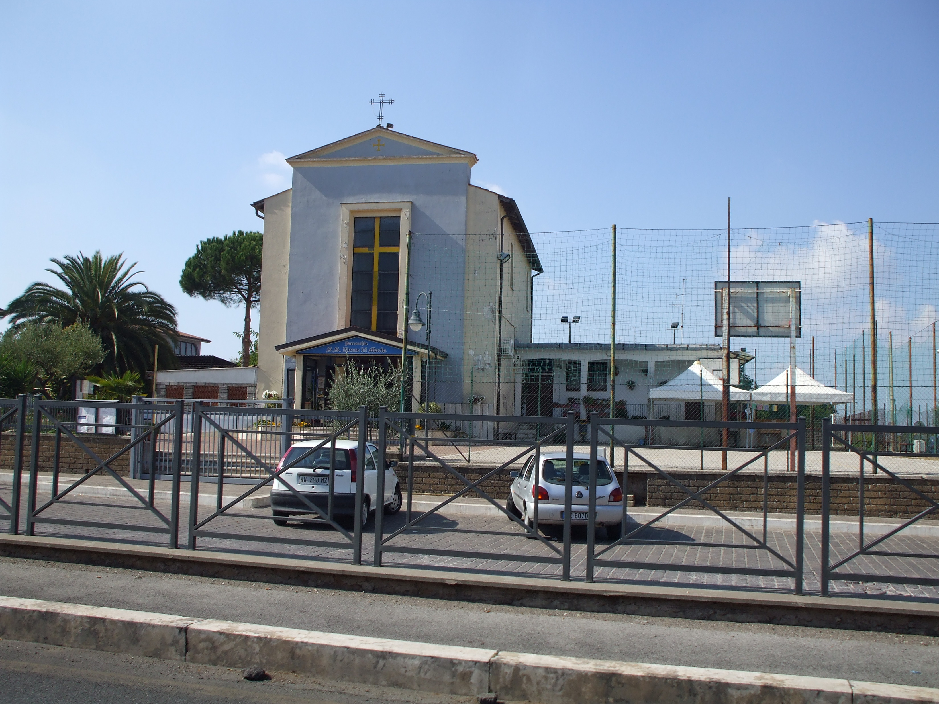 Ariccia - Cecchina/Fontana di Papa - Church di Santa Maria